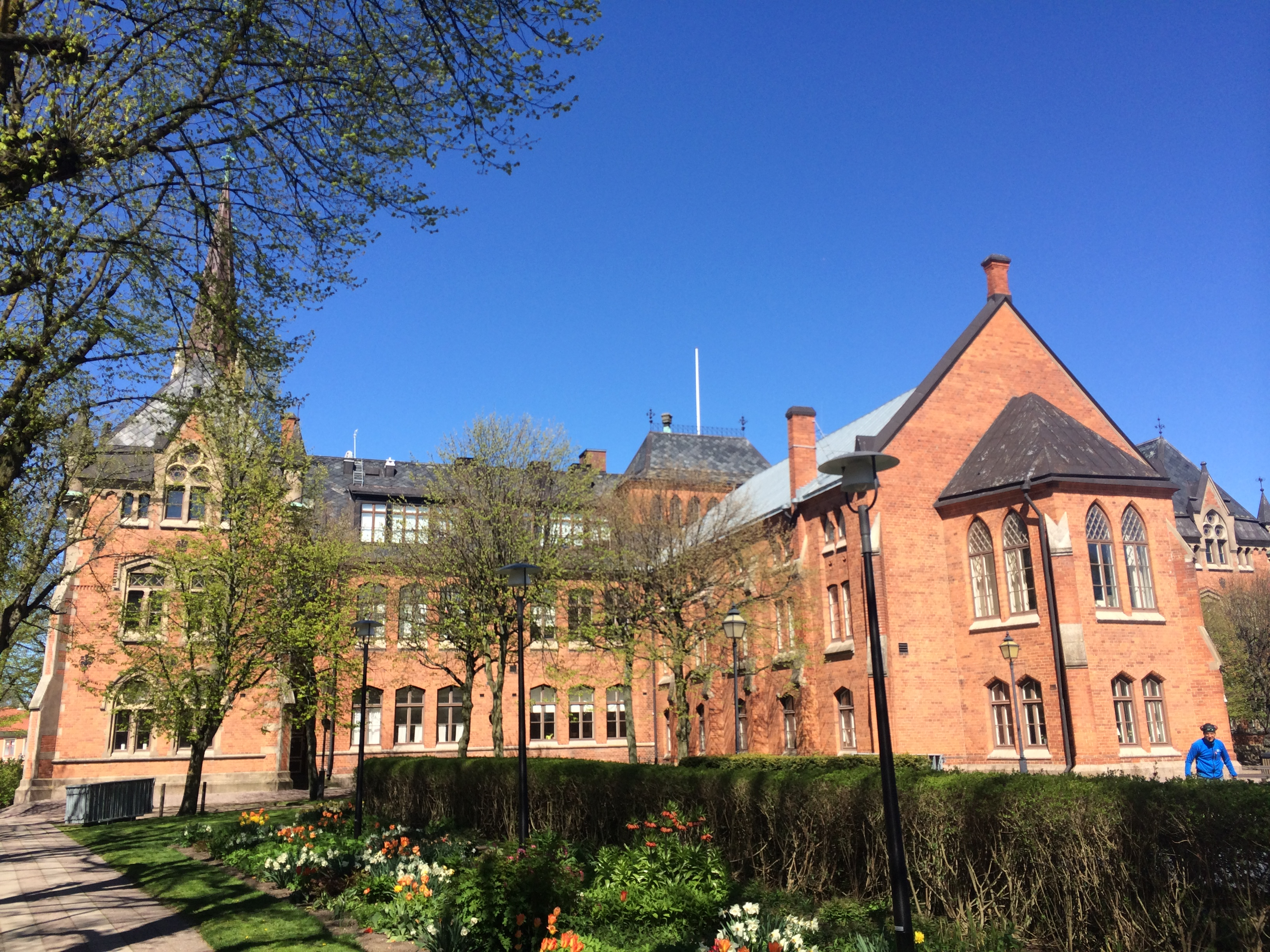 Djäkneskolan is a 7-9 secondary School, With 300 pupils, in a late 19th Century building downtown Skara, Sweden. Building drawn by architect Helgo Zettervall, opened in 1871. It sits just opposite the Skara Cathedral.